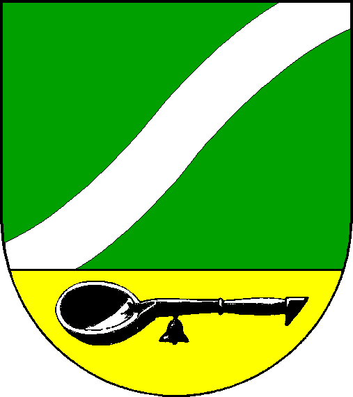 Coat of arms of the municipality Sterup in Schleswig-Holstein, Germany.